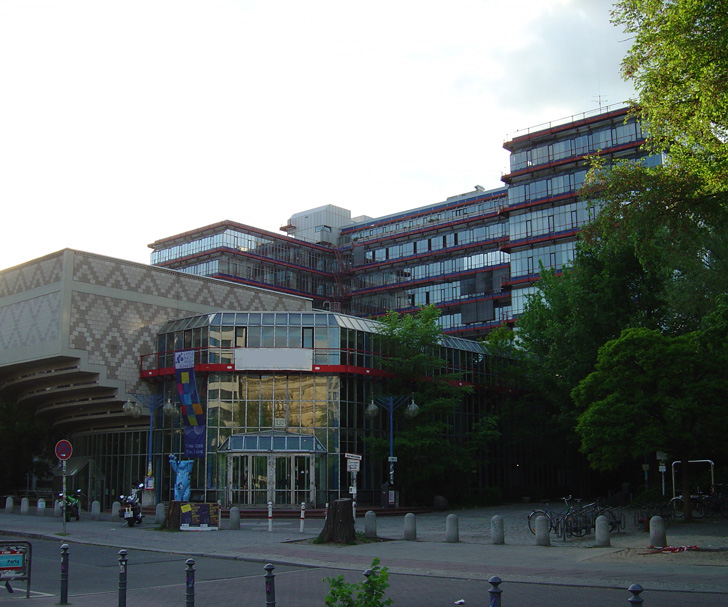 TU Mathematikgebäude, The Mathematics building of the TU Berlin